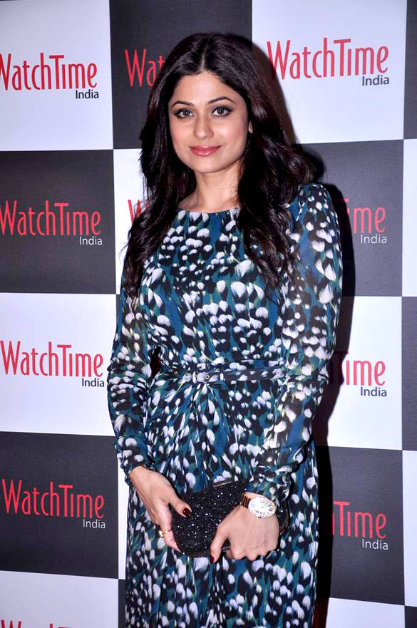 Shamita Shetty at the launch of Watch Time's magazine